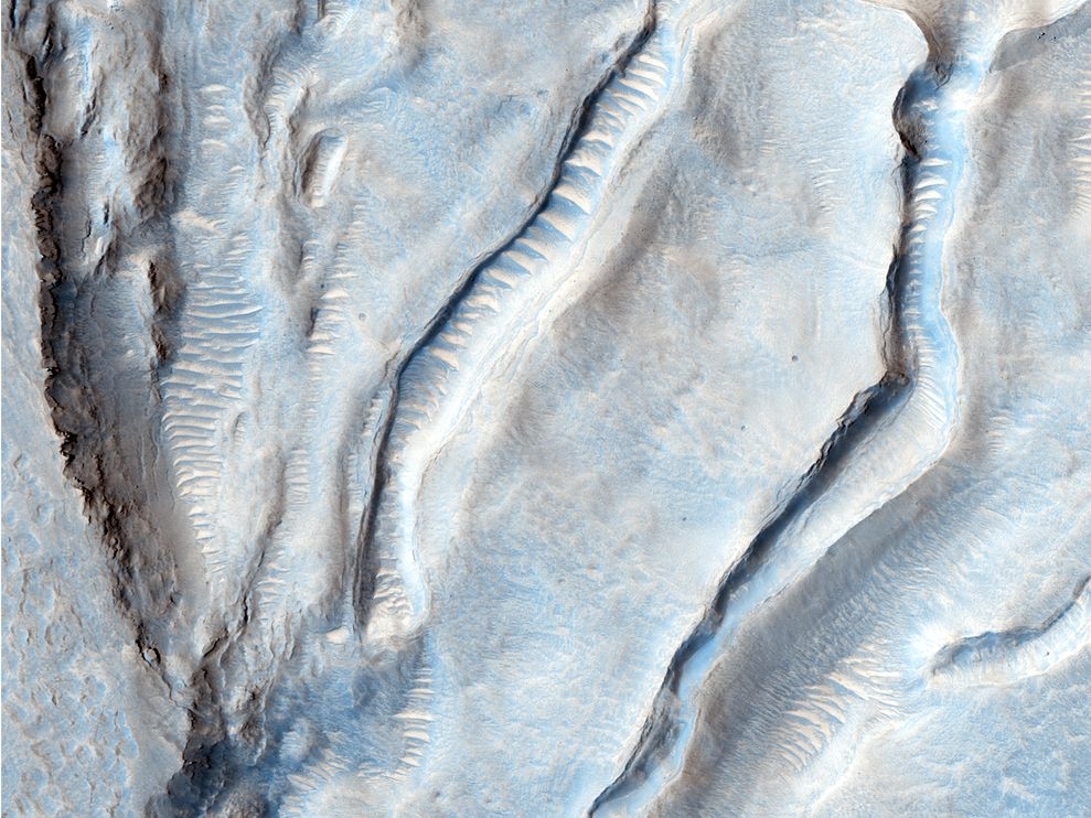 wiggly shapes adorning Oxus Patera, a frozen volcanic caldera on Mars, as seen in this NASA image released on January 22. The scalloped nicks along the spines of the caldera's ridges were likely cracks caused by the expansion and contraction of ice sometime in the ancient past on Mars, scientists suggest.